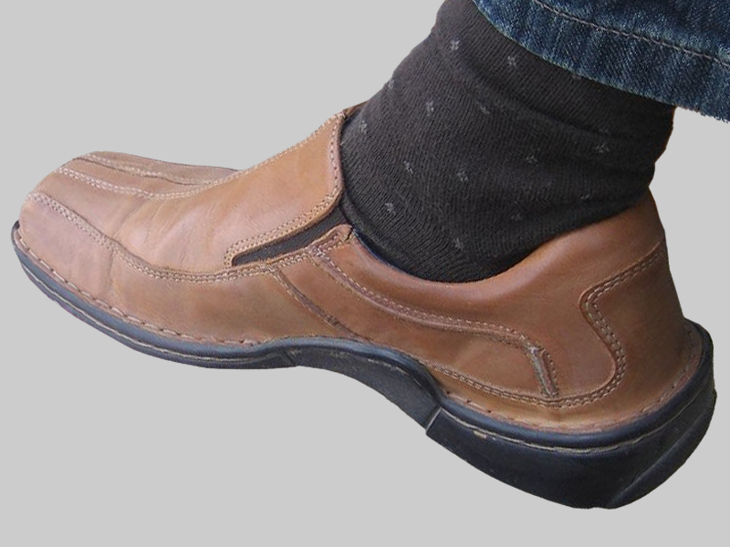 jason is sporting his new hush puppies.